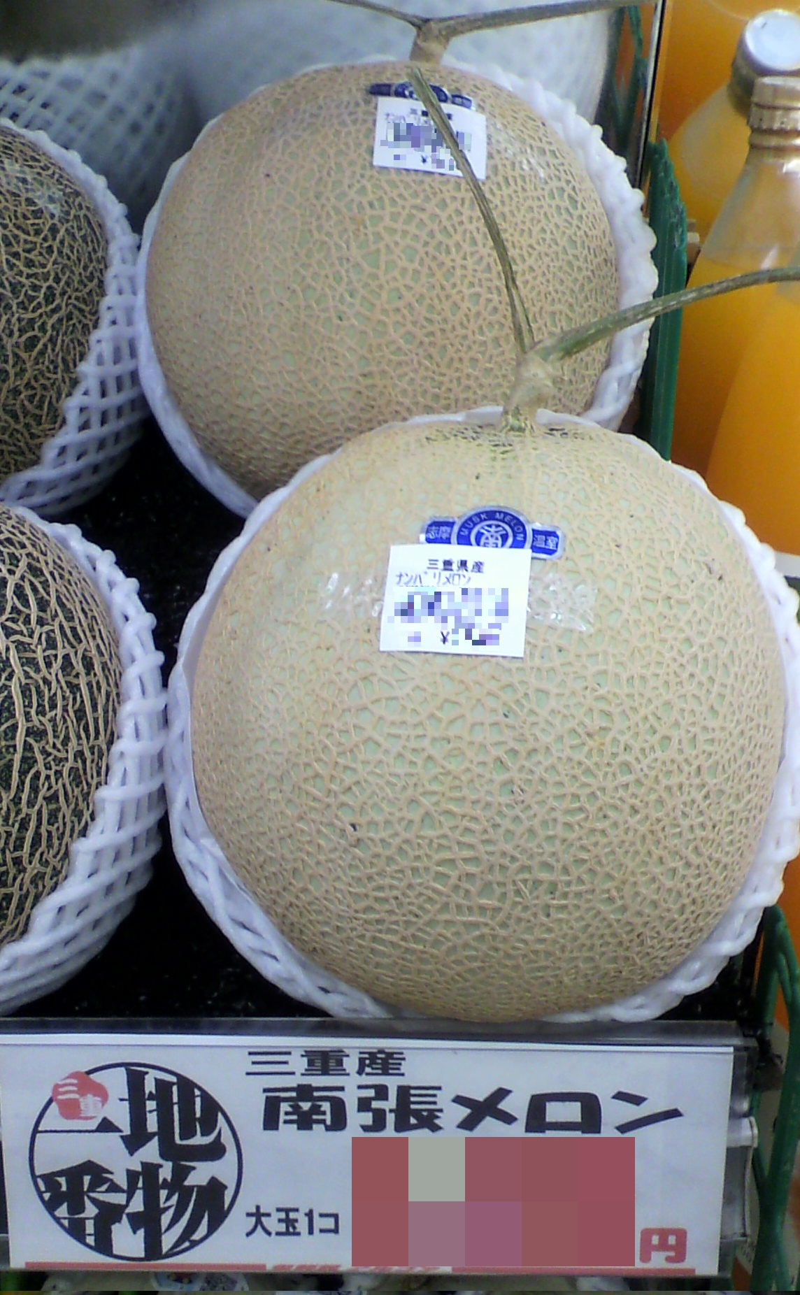 This is Nambari-Melons in a supermarket.